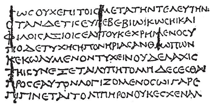 old greek papyrus